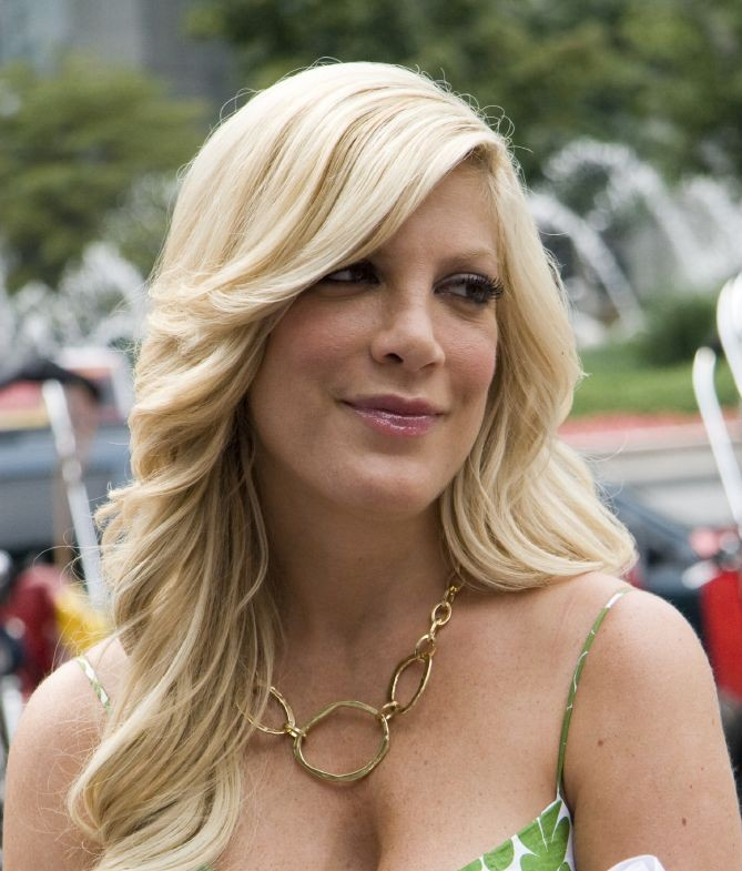 Actress Tori Spelling, during an interview